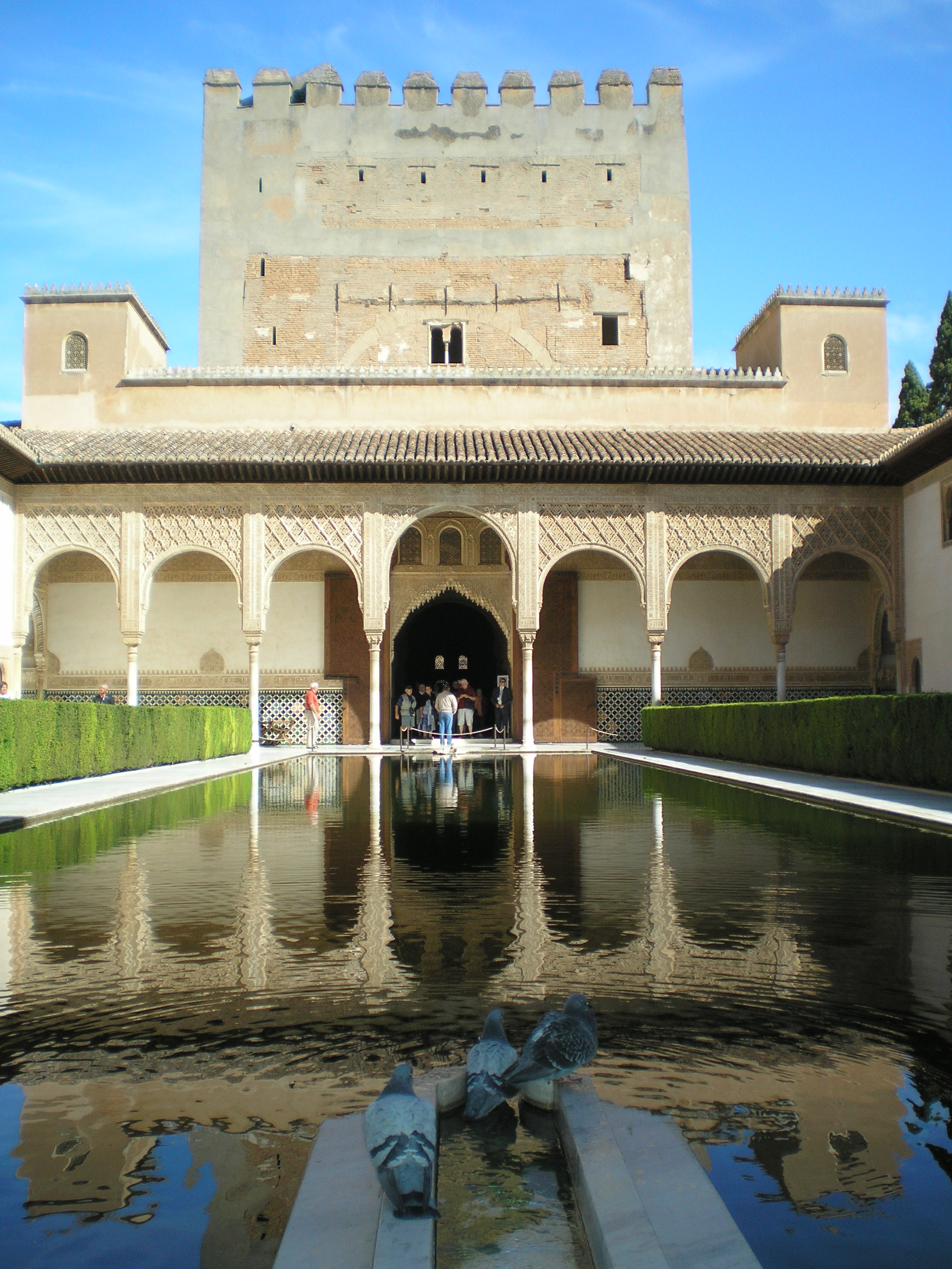 The Arrayanes Courtyard in Comares Palace, in Alhambra, Granada, Spain.